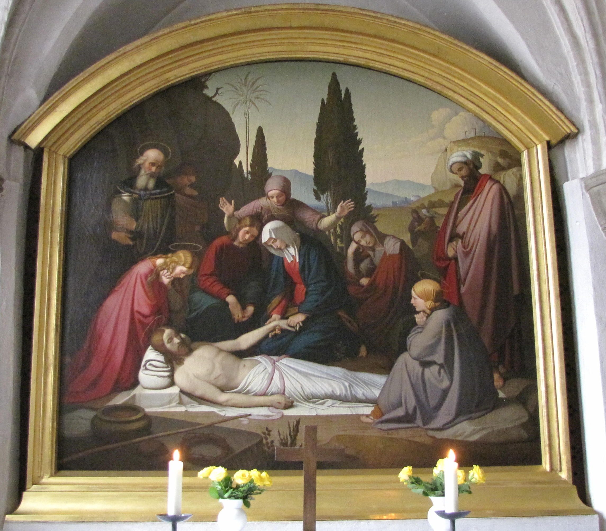 Friedrich Overbeck: Die Beweinung', St. Marien, Lübeck'